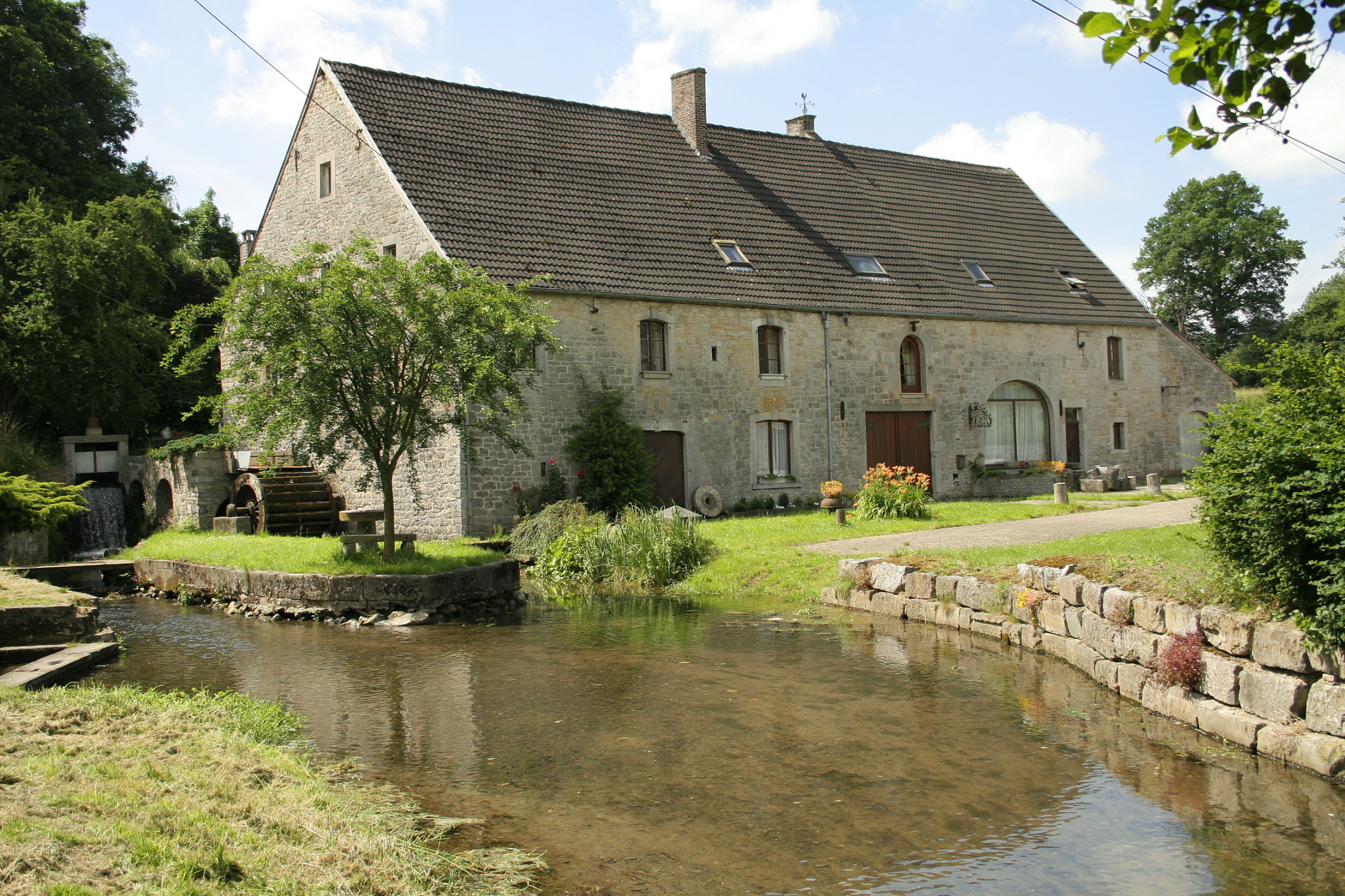 Mohiville (Belgium), the watermill of Scoville (1743) on the Bocq river.